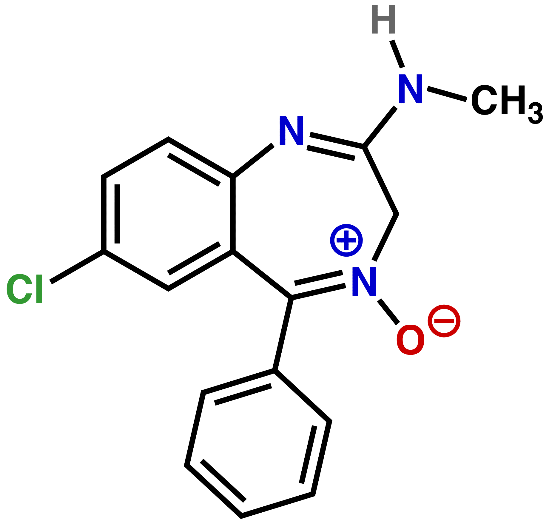 Chemical structure of chlordiazepoxide